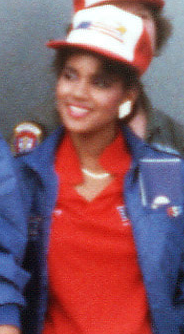 Halle Berry, Miss Ohio USA 1986, embarking on a USO tour with other Miss USA 1986 contestants.